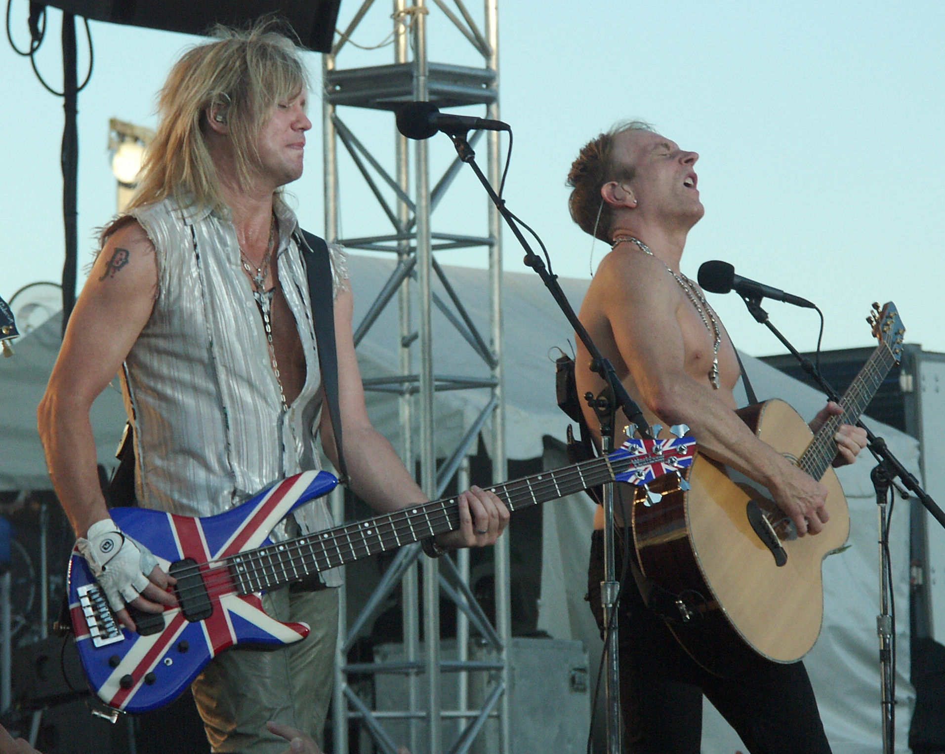 Taken by Weatherman90 at North Dakota State Fair Def Leppard Concert, 2007-07-26